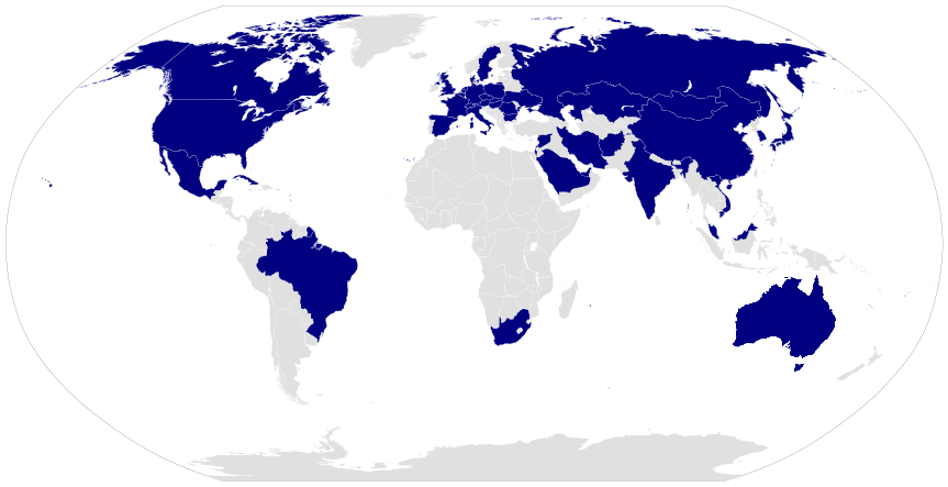 Countries (and successor states) whose citizens have flown in space as of September 2019.